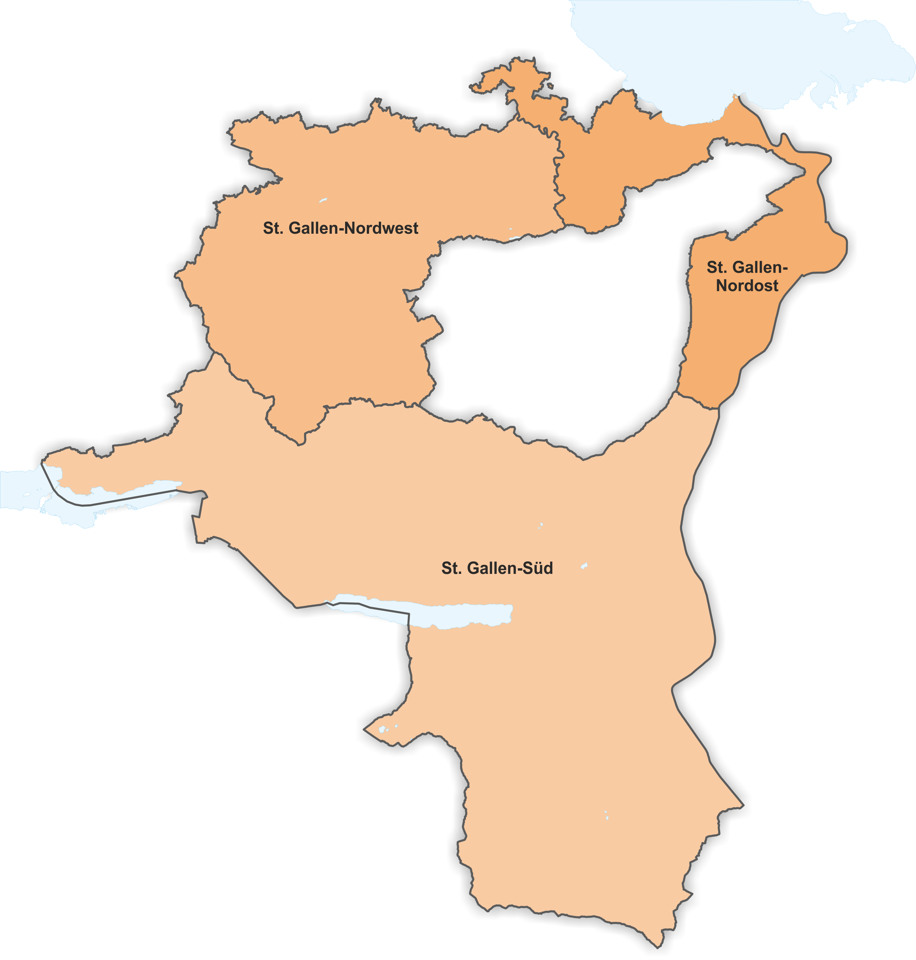 National council constituencies in the canton of St. Gallen from 1863 to 1869